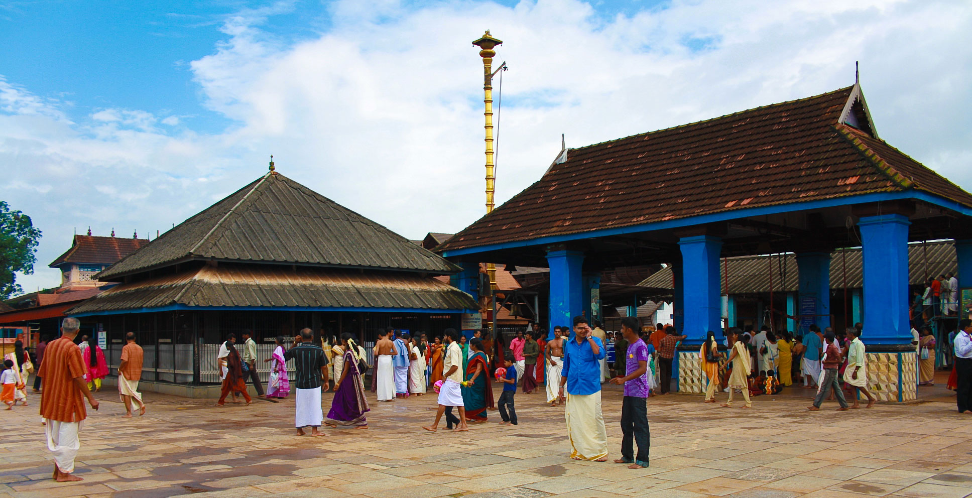 Chottanikkara Temple, dedicated to Devi (goddess in Hinduism)